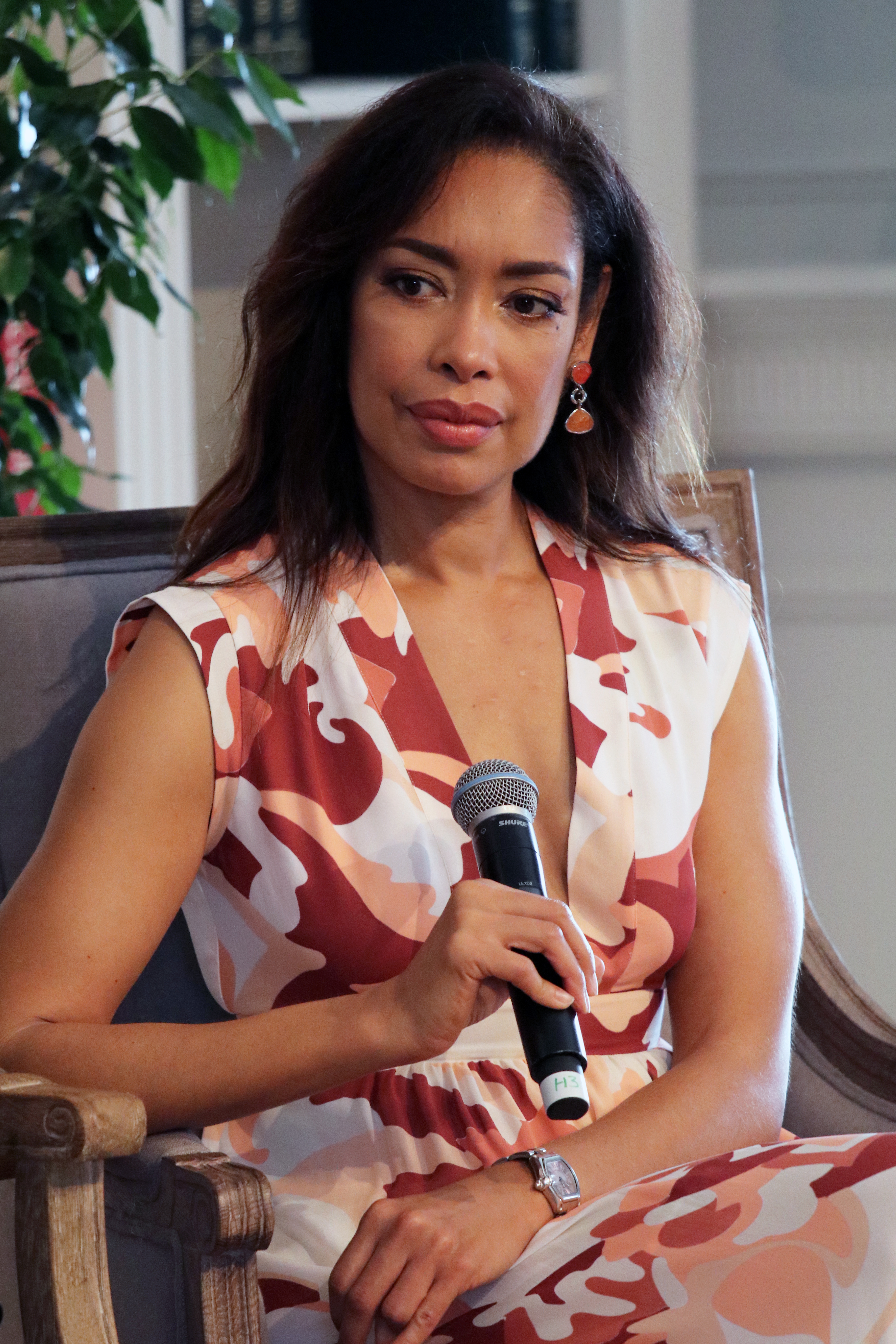 Gina Torres, actress, at the 2018 Global Education and Skills Forum in Dubai